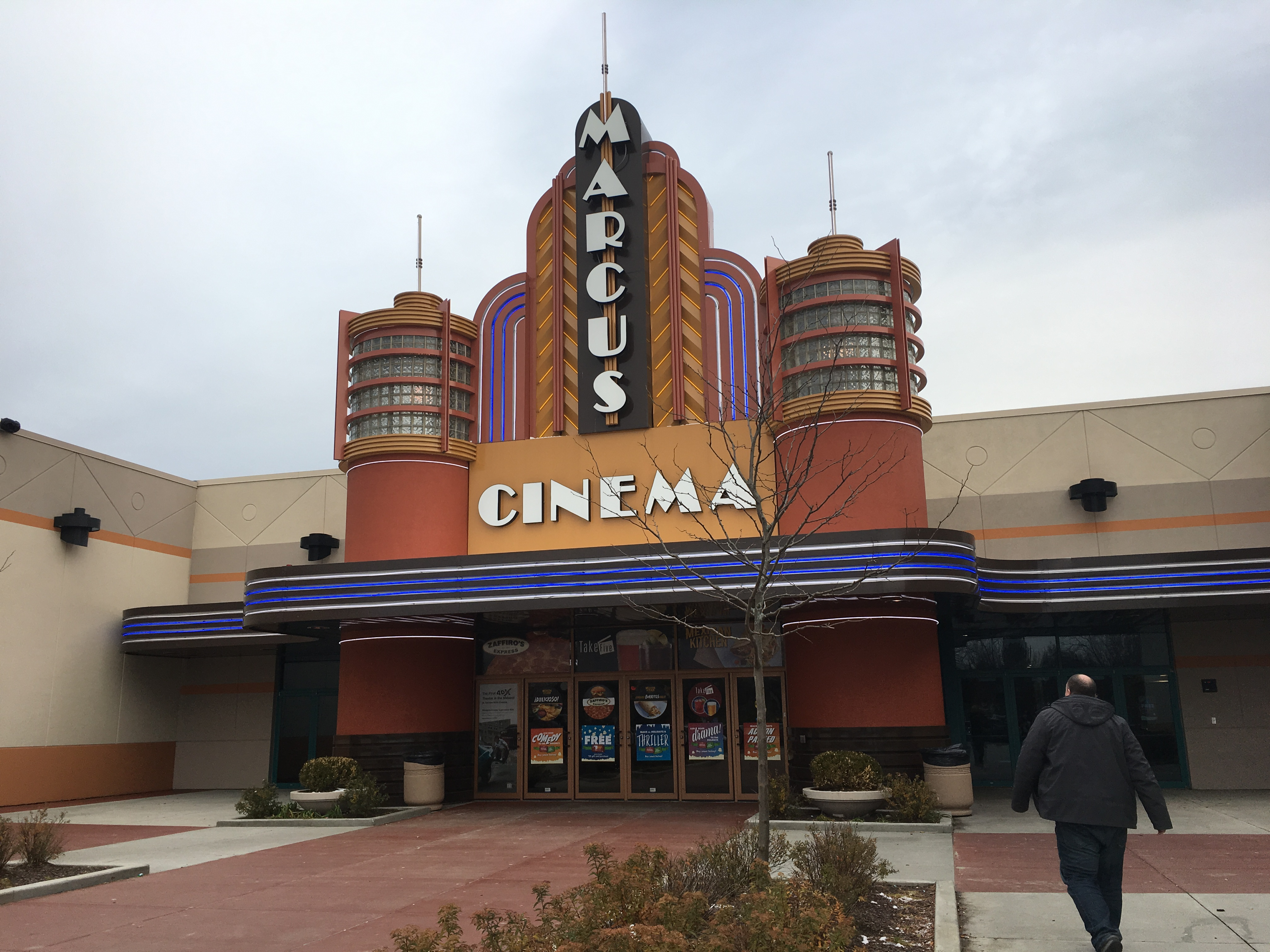 A Marcus Corporation owned theatre located in Gurnee, Illinois